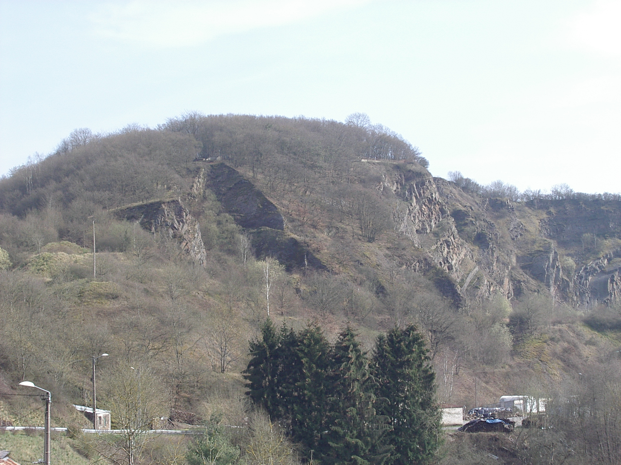 Mont Vireux, an archaeological site located on the left bank of the River Meuse, overlooking Vireux-Molhain, Ardennes, France.